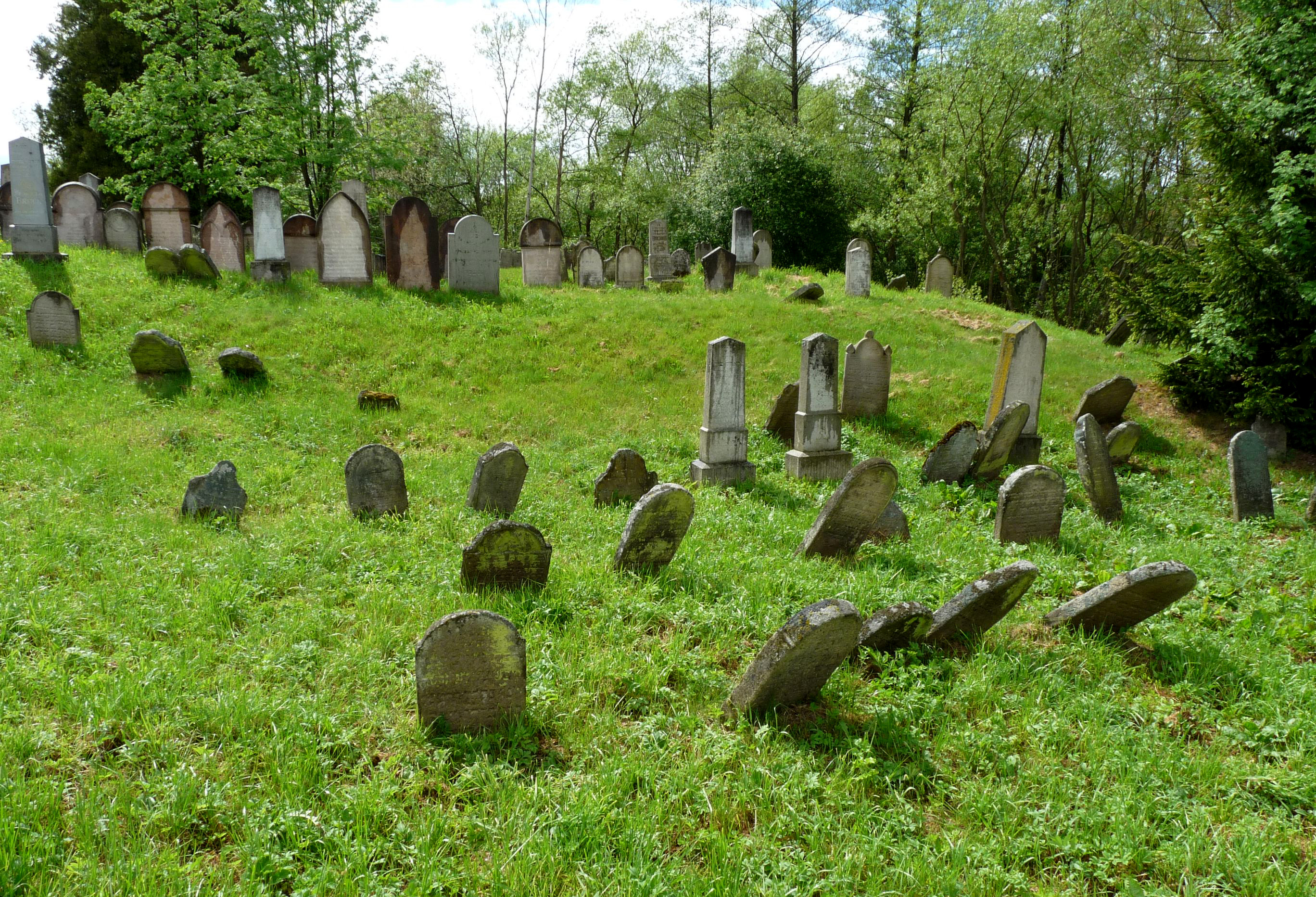 Jewish cemetery in the town of Hořepník, Pelhřimov District, Vysočina Region, Czech Republic.